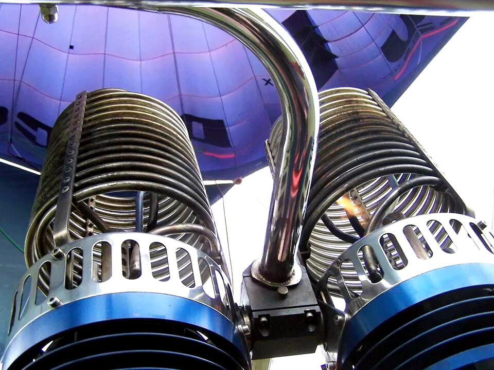 Brander in een luchtballon